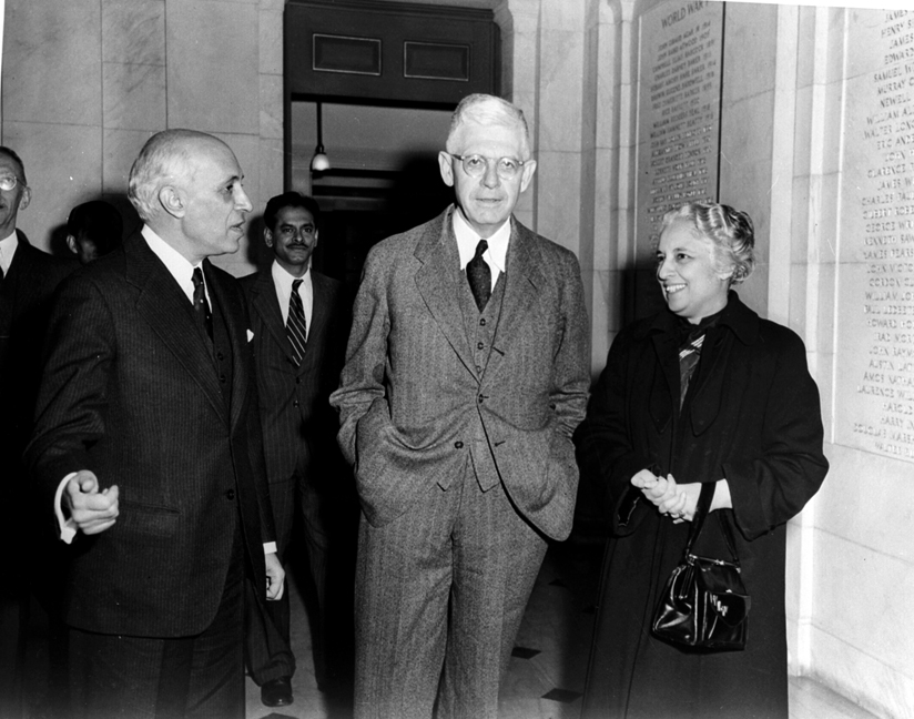 Washington/Nov.1949,A22a(i) The Hon'ble Pandit Jawaharlal Nehru, Prime Minister with H.E. Shrimati Vijaya Lakshmi and Prof. Harold Dodds, President of Princeton University, when he visited in November, 1949 during his visit to the USA.